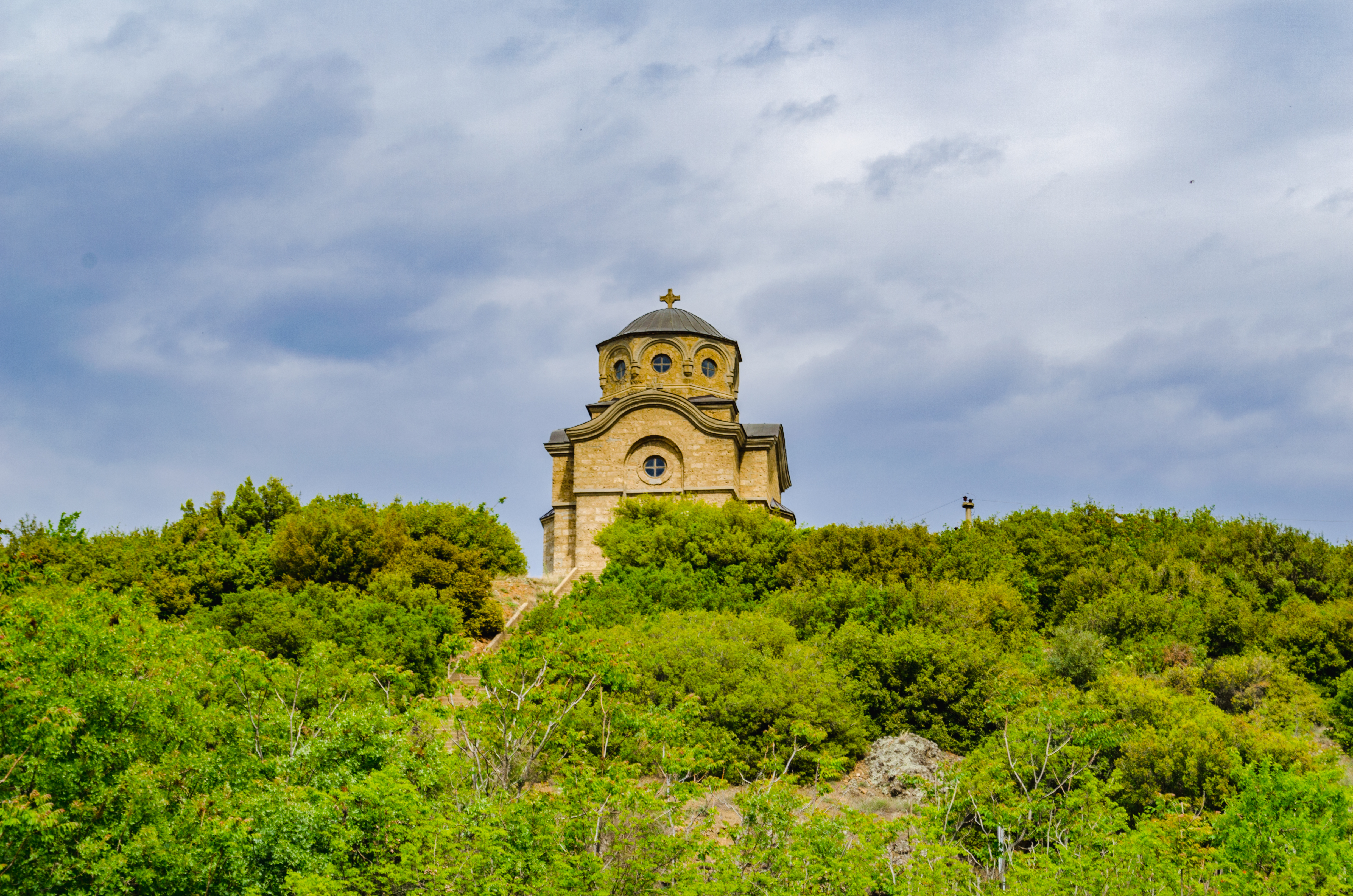 Udovo Memorial honouring Serbian soldiers in the eponymous village